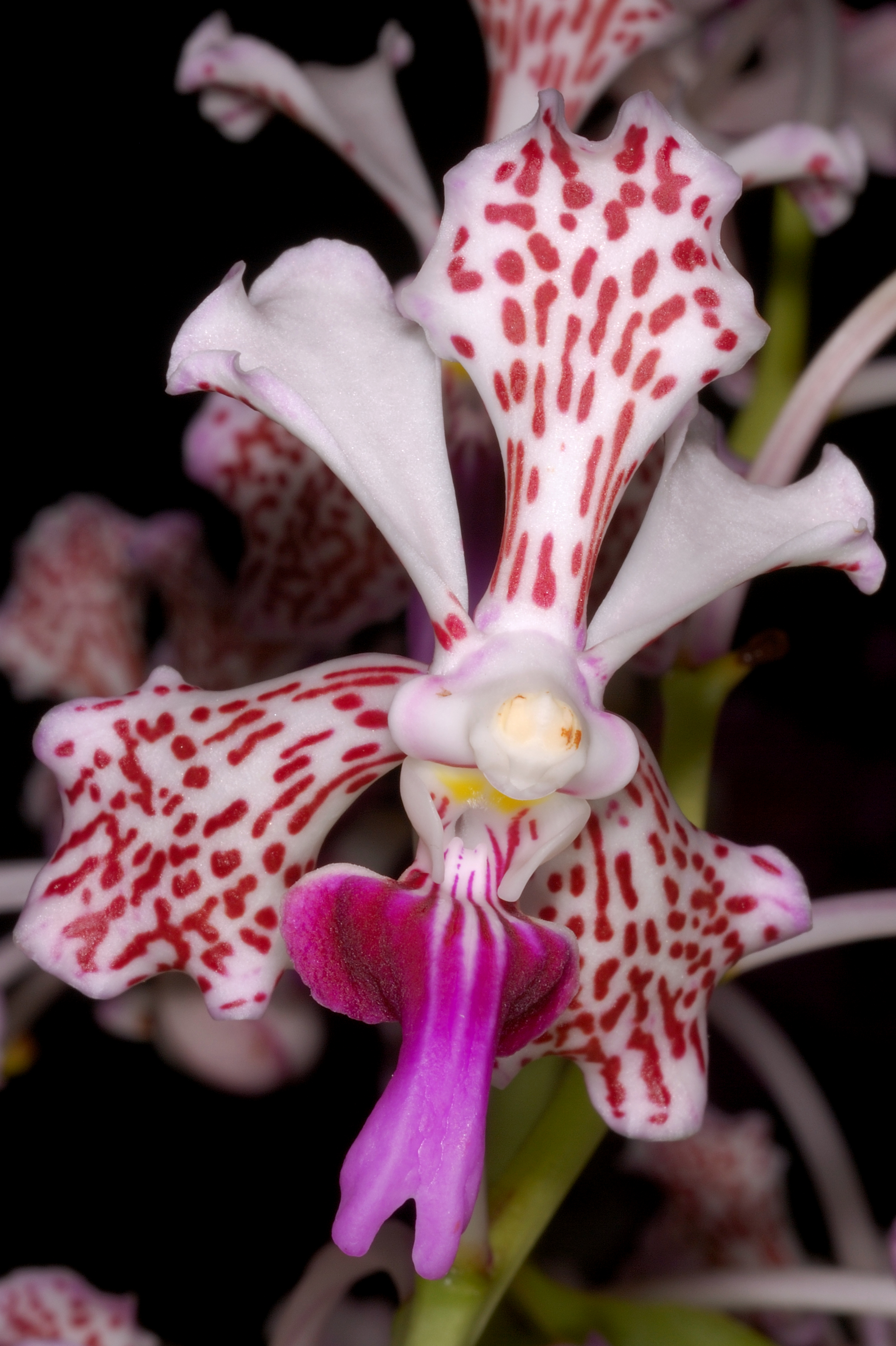 Species from Southeast Asia Grown by Judy Carney